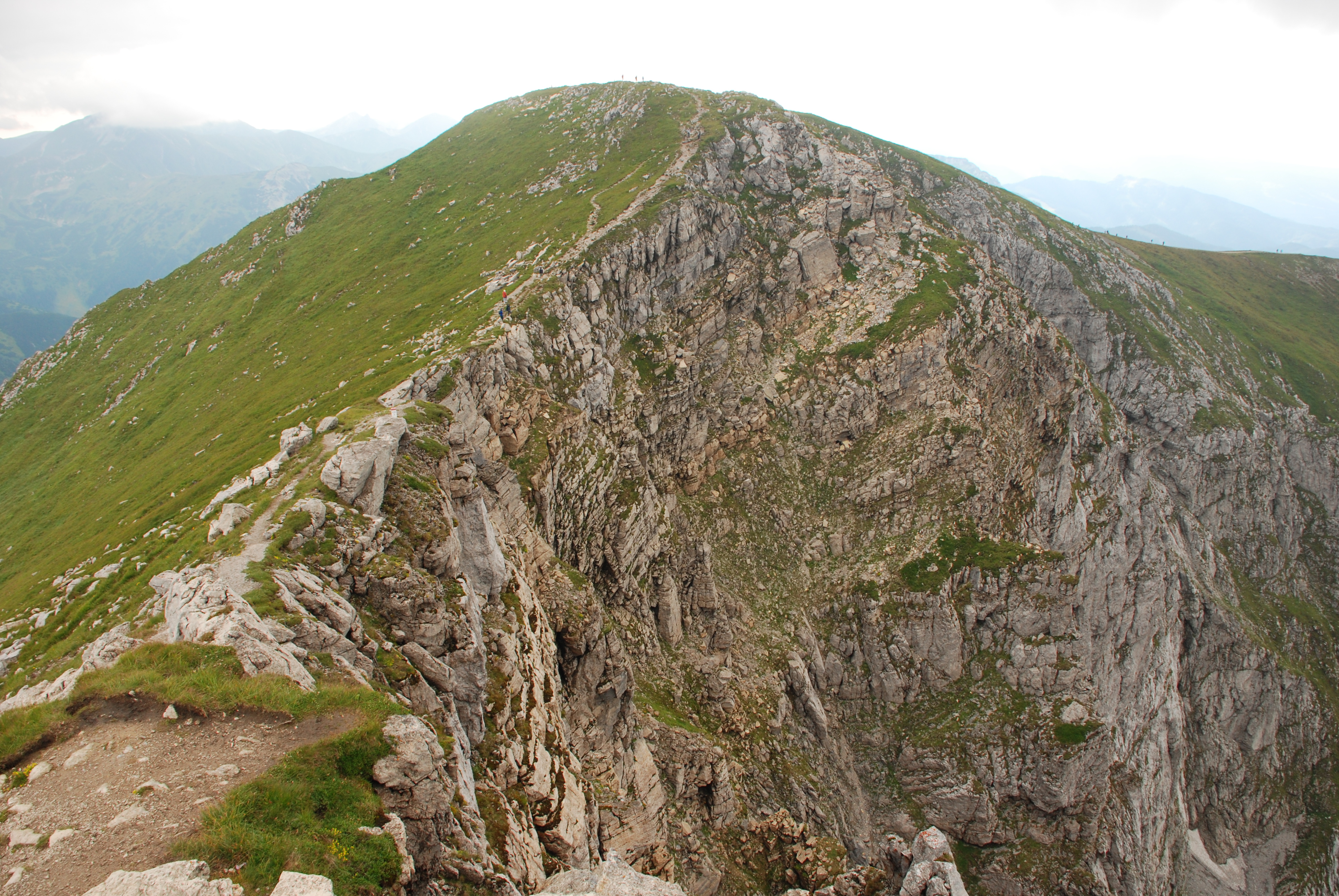 Ciemniak